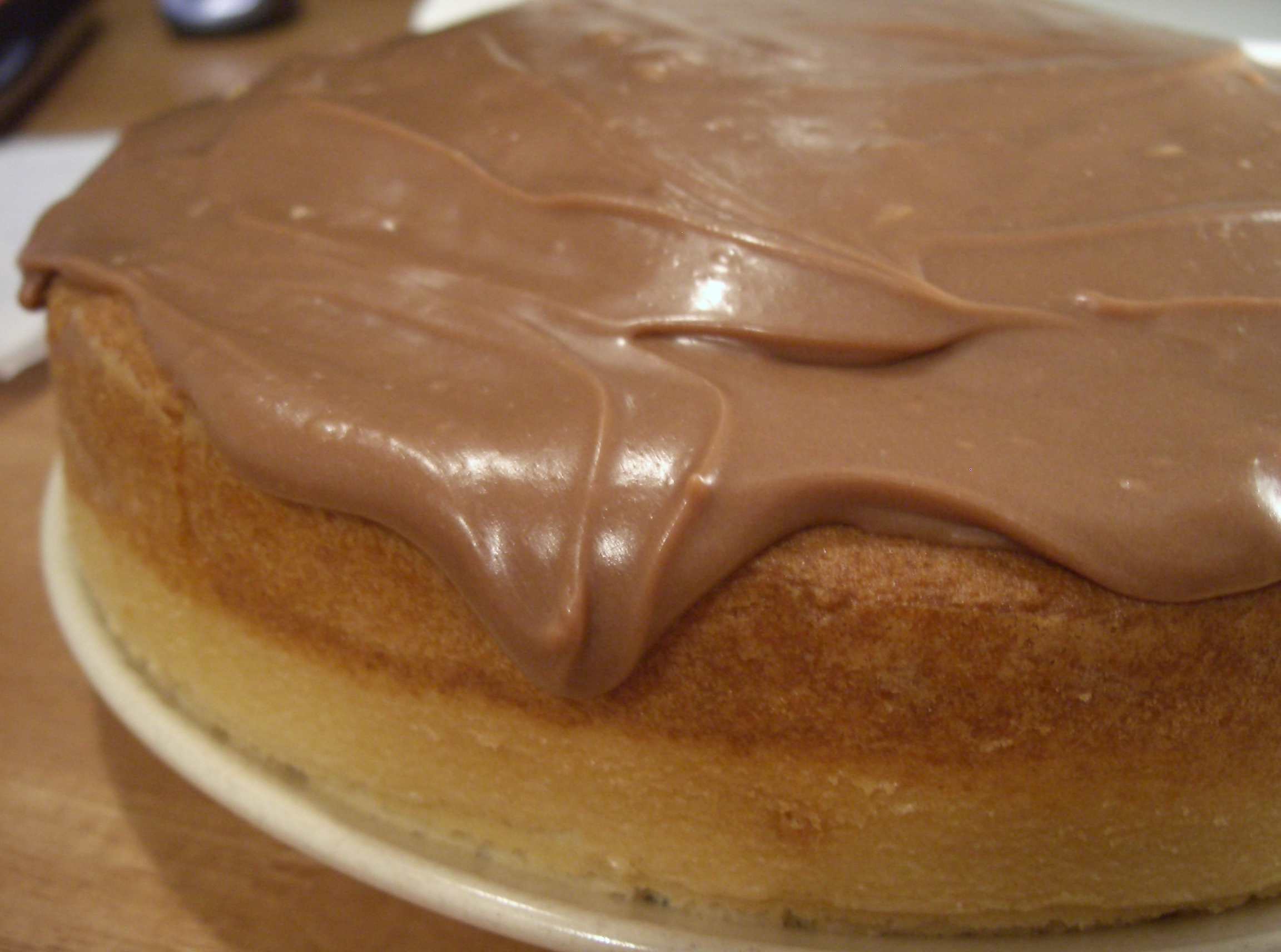 An iced cake. Iced with Cookbook:Chocolate Sour-Cream Icing, in fact!